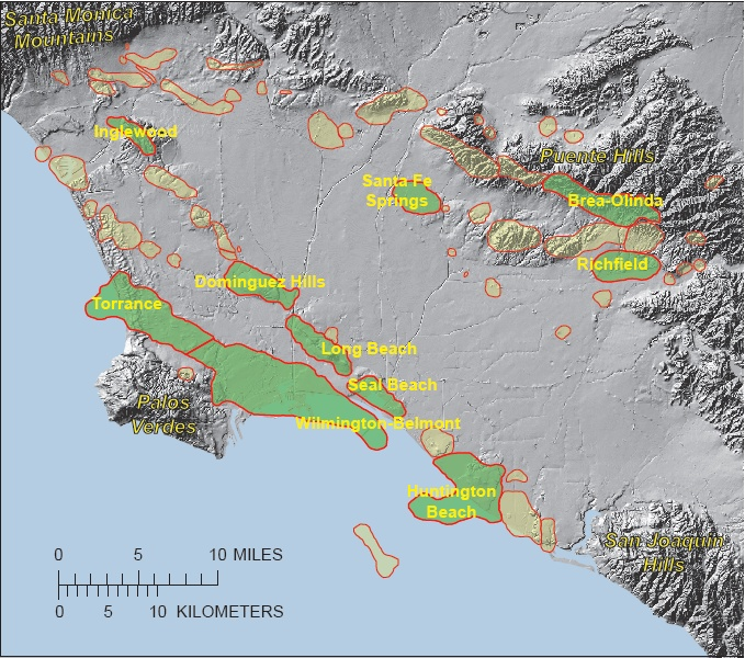 LA Basin Oil Fields, Fact Sheet 2012-3120, revised 2013 [1]